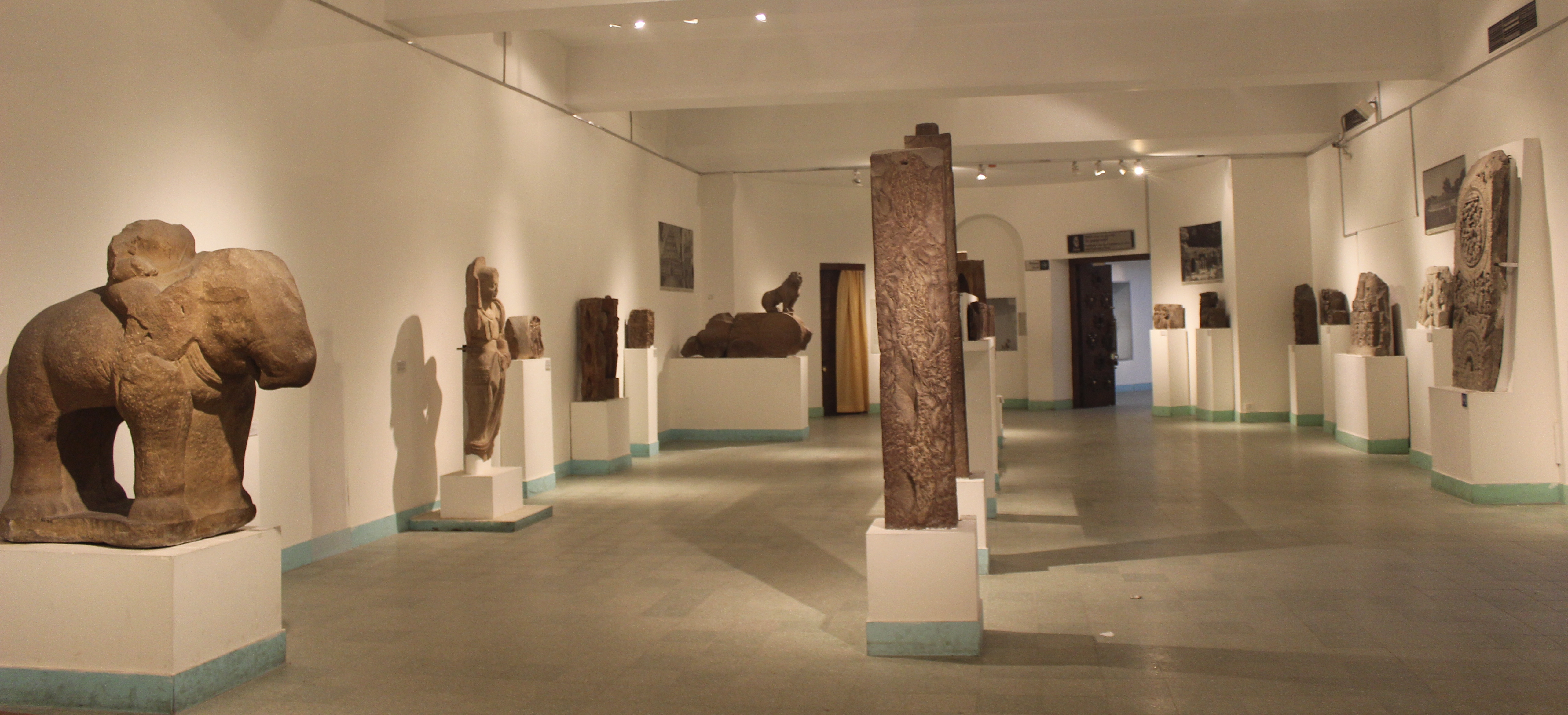 A view of the Maurya, Shunga and Satvahana Gallery